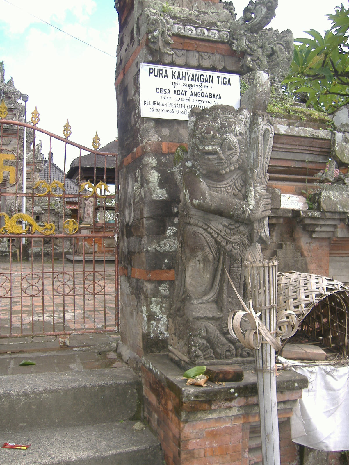 Entrance to the temple at Anggabaya, Bali, Indonesia. I took the picture myself.